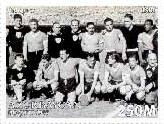 Select football team of Uruguay - World Football Champion of 1950.